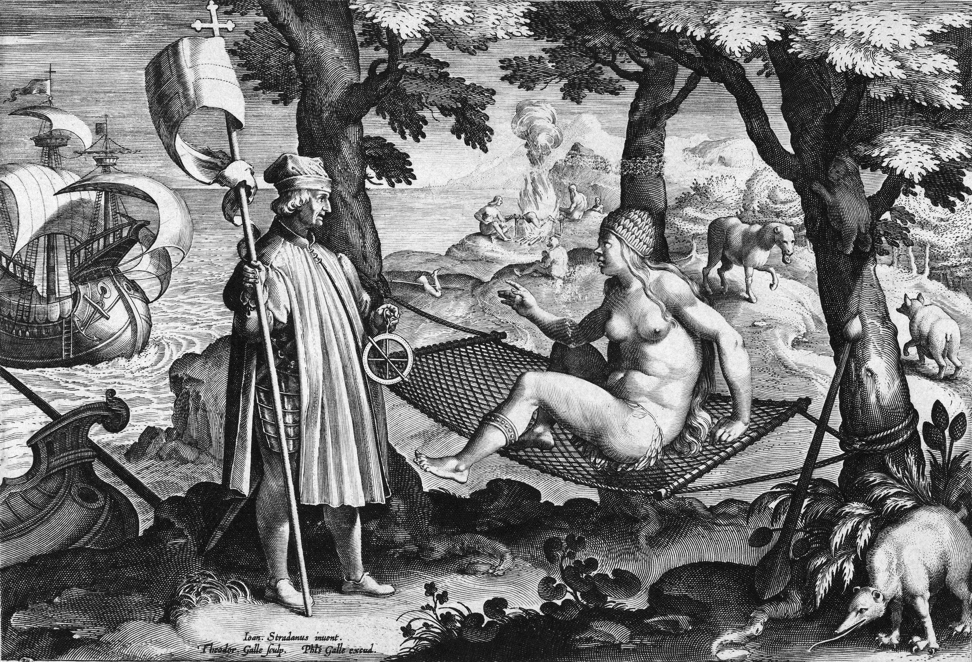 Amerigo Vespucci awakens a sleeping America. Theodor Galle has done a replica after Johannes Stradanus.